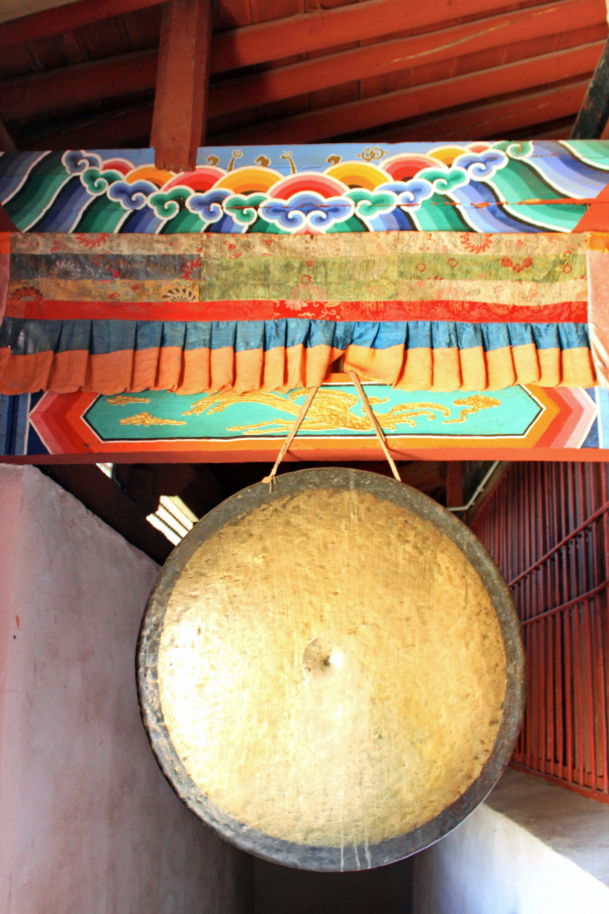 Gong. Main Temple in the Erdene Zuu Monastery. Kharkhorin, Övörkhangai Province, Mongolia.